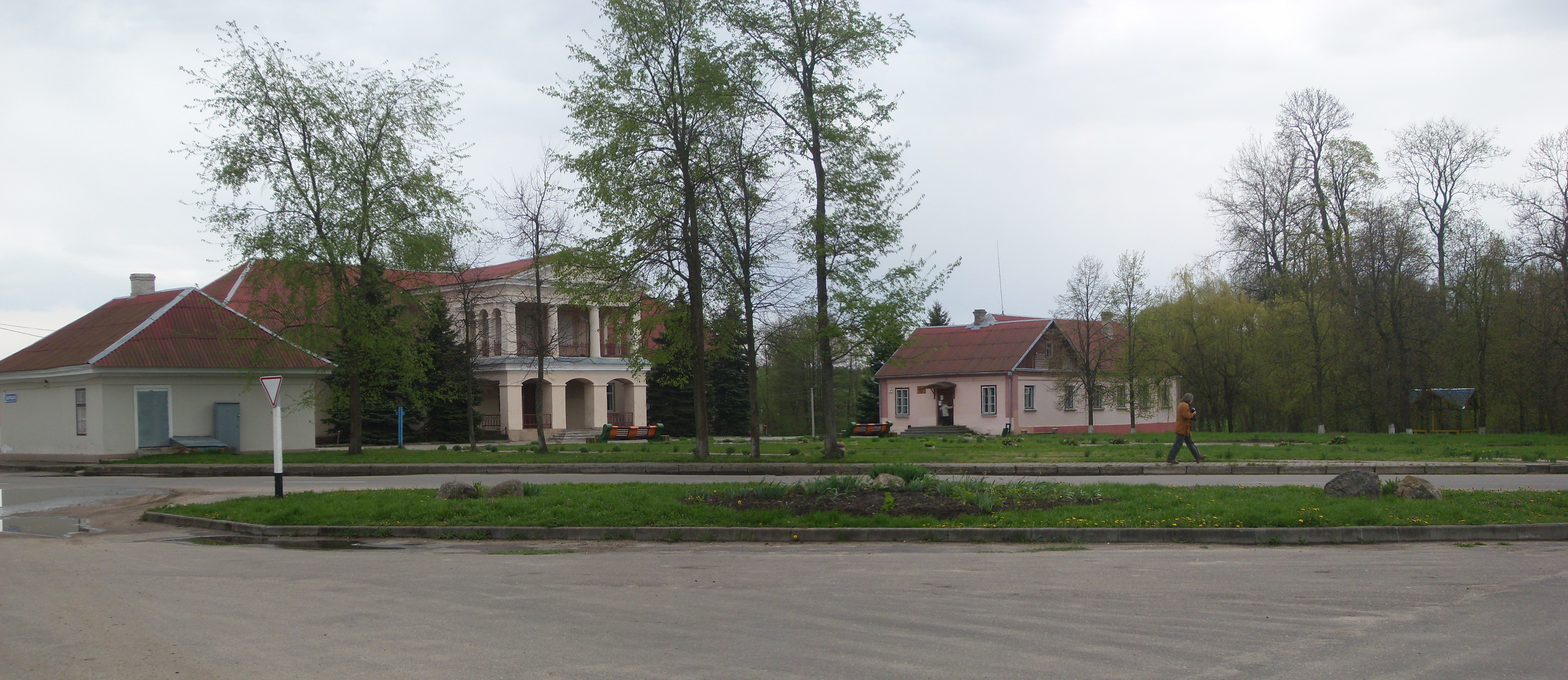 Беларуская (тарашкевіца): Былы сядзібны дом. в. Гнезна This is a photo of Belarusian heritage monument. Reference number: 413Г000097 ( WLM)